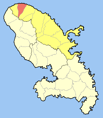 Location of Macoube within Martinique